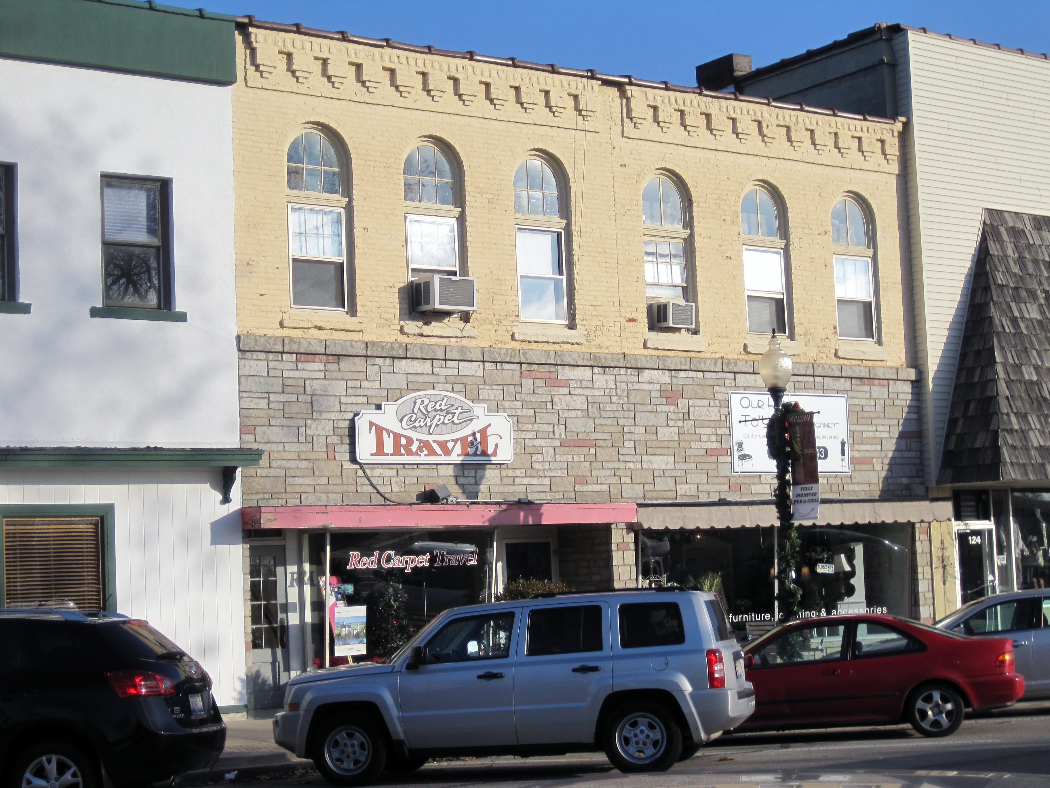 118-120 E. Washington St. in the Morris Downtown Historic District (c. 1860)